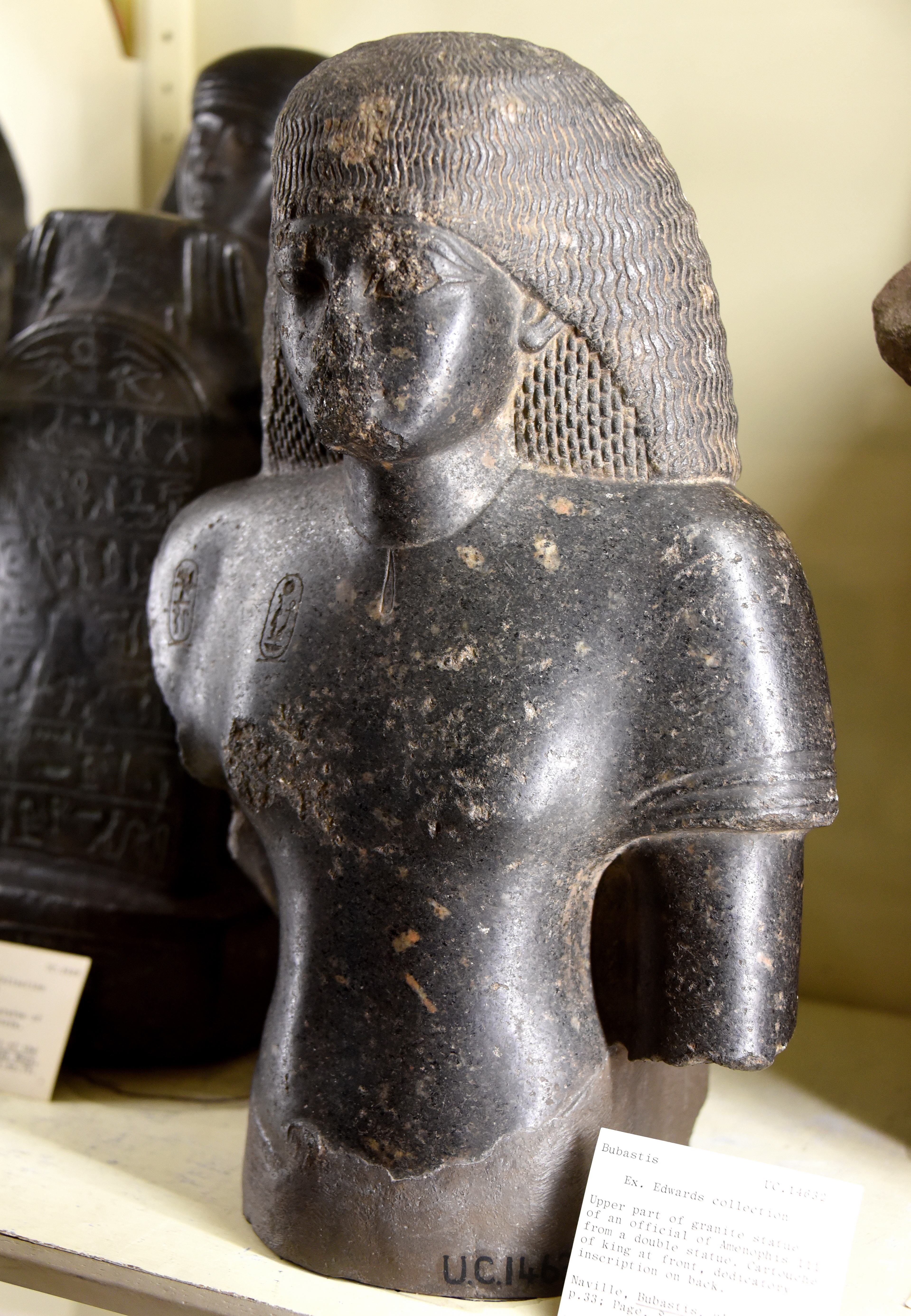 Upper part of a male figure from a double statue. Official of Amenhotep III and wife (lost). Cartouche of king at front, dedicatory text on back. Granite. 18th Dynasty. From Bubastis (Tell-Basta), Egypt. From the Amelia Edwards Collection. The Petrie Museum of Egyptian Archaeology, London. With thanks to the Petrie Museum of Egyptian Archaeology, UCL.